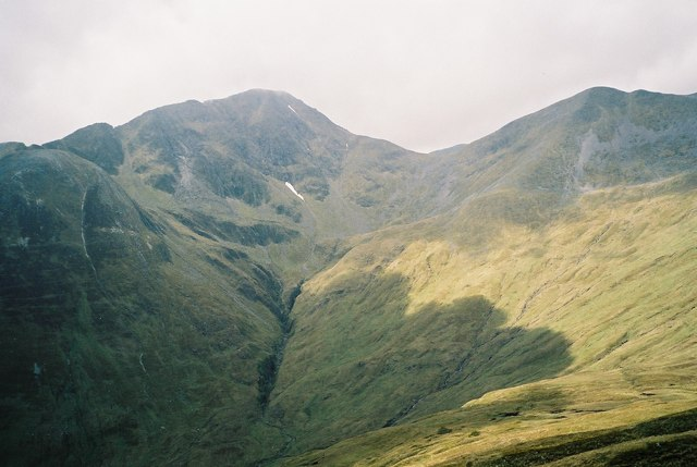 Am Bodach